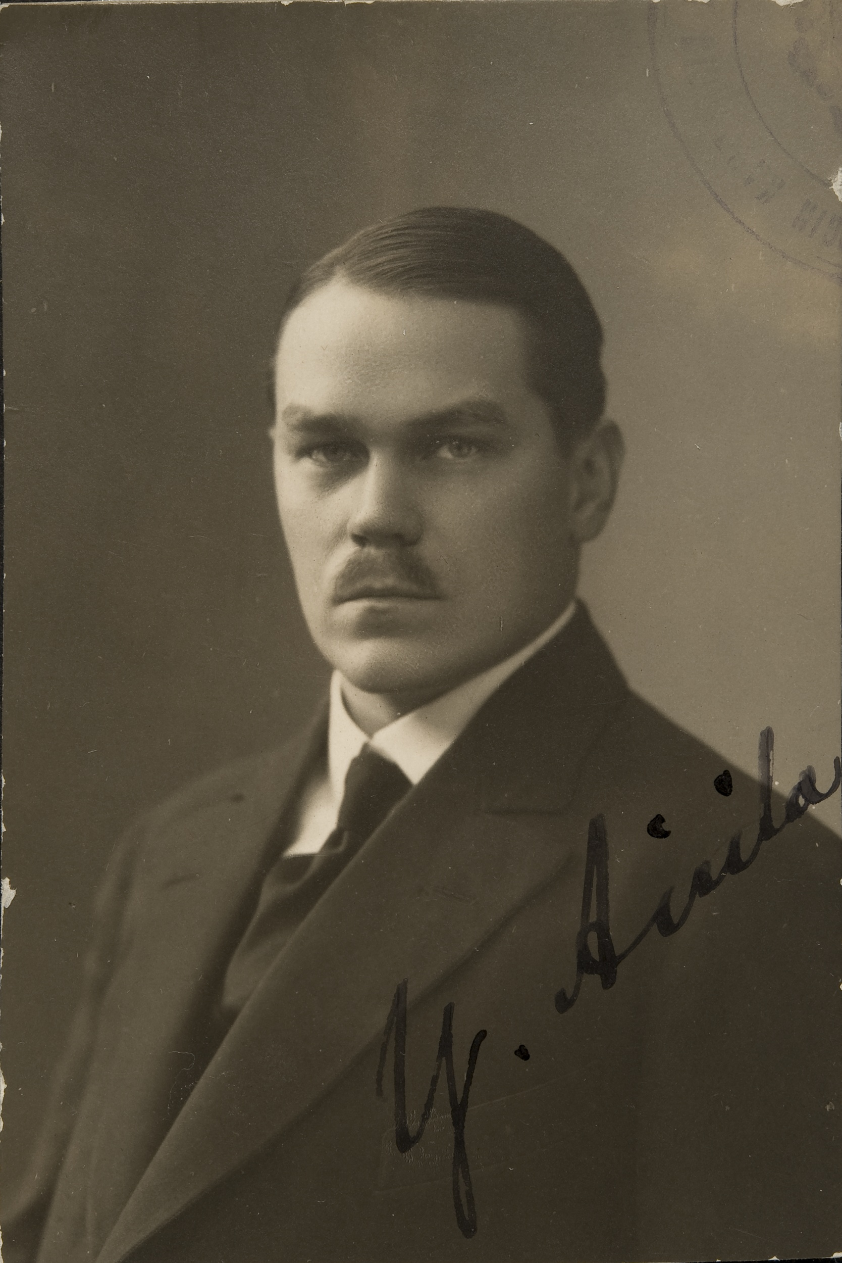 Photograph of the Finnish physician Yrjö Airila (1887–1949).